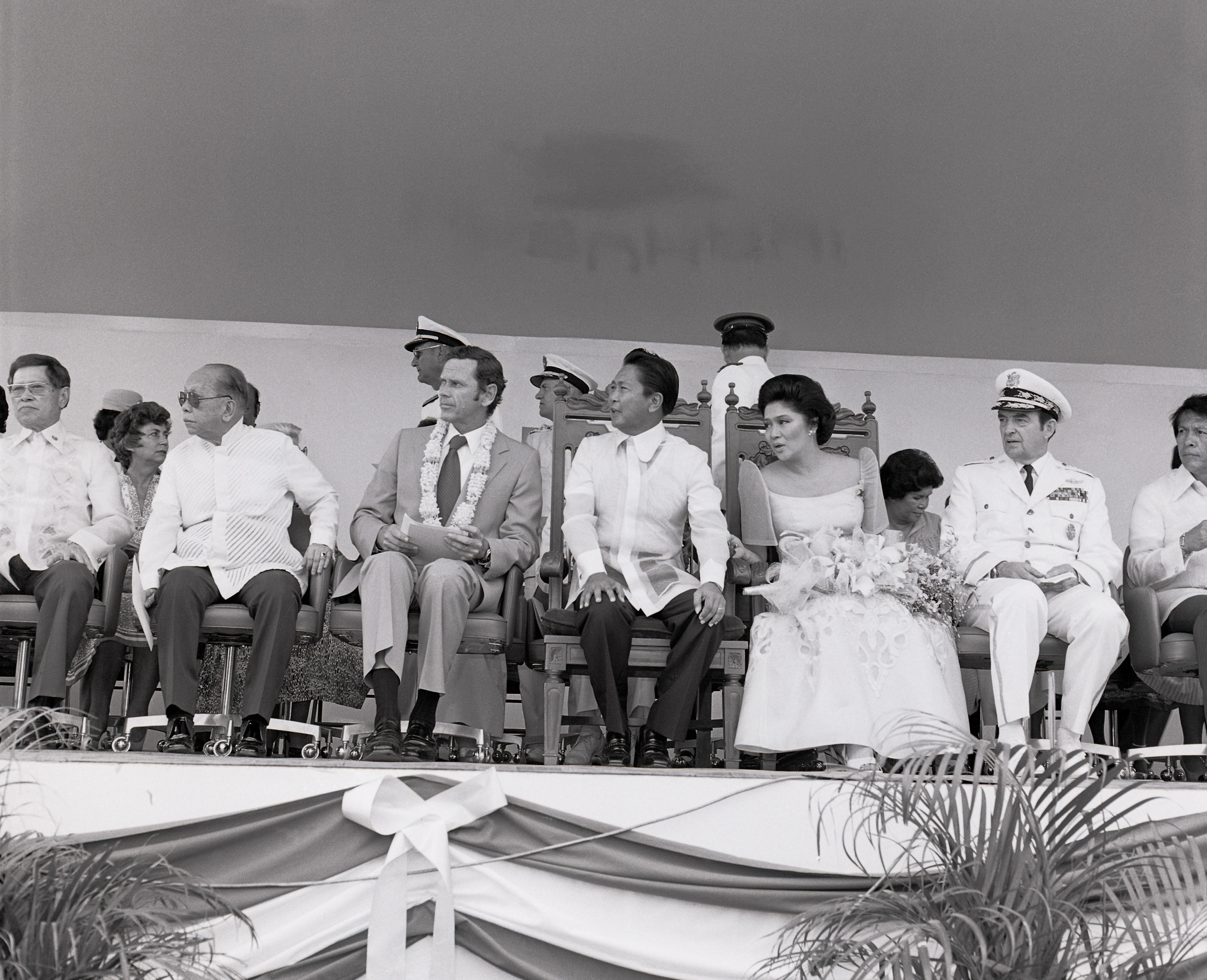 Seated during the Clark Air Force Base turnover ceremonies are from left to right, Foreign Minister of the Philippines, Carlos P. Romulo; Ambassador Richard W. Murphy; Philippine President and Mrs. Ferdinand Marcos; and Chairman of the Joint Chiefs of Staff, General David C. Jones.